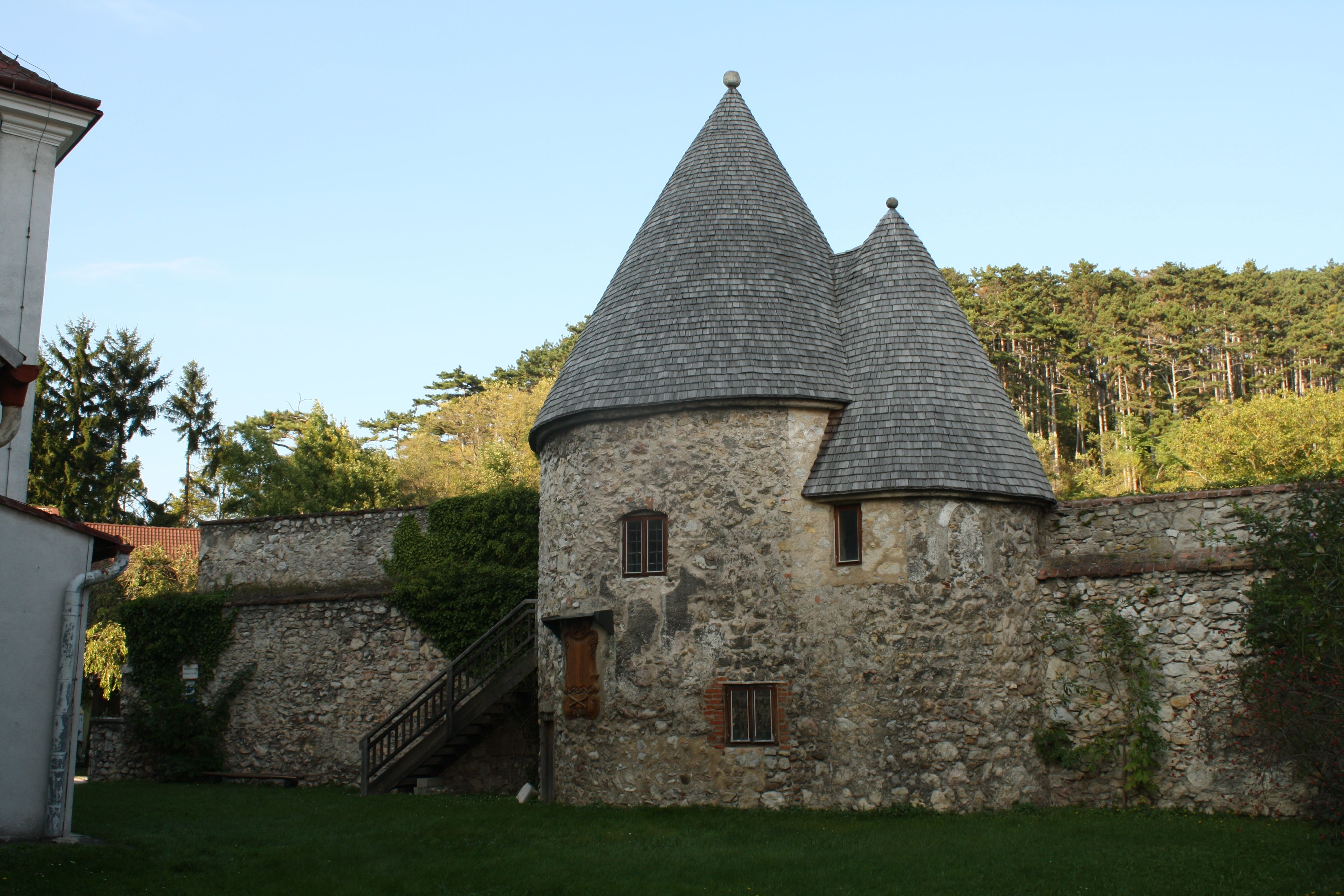 Twice-ossuary in Pottenstein, Austria